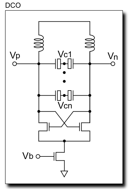 All Digital PLL DCO